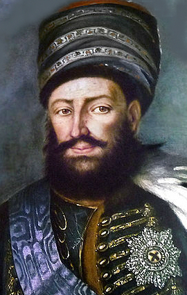 King Erekle II